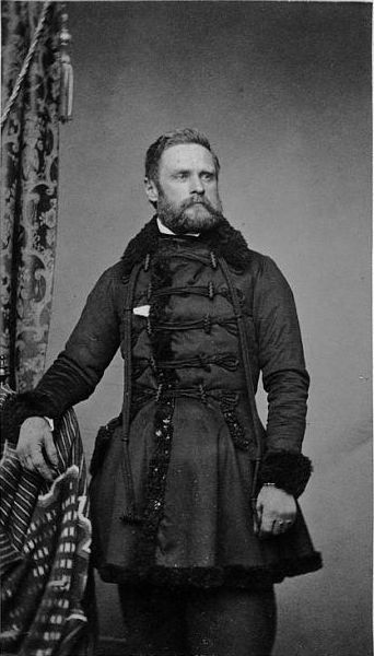 Arthur Carl Victor Schott (1814-1875), German-American artist, engineer and geologist who contributed to the "Report on the United States and Mexican Boundary Survey" of 1848-1855.